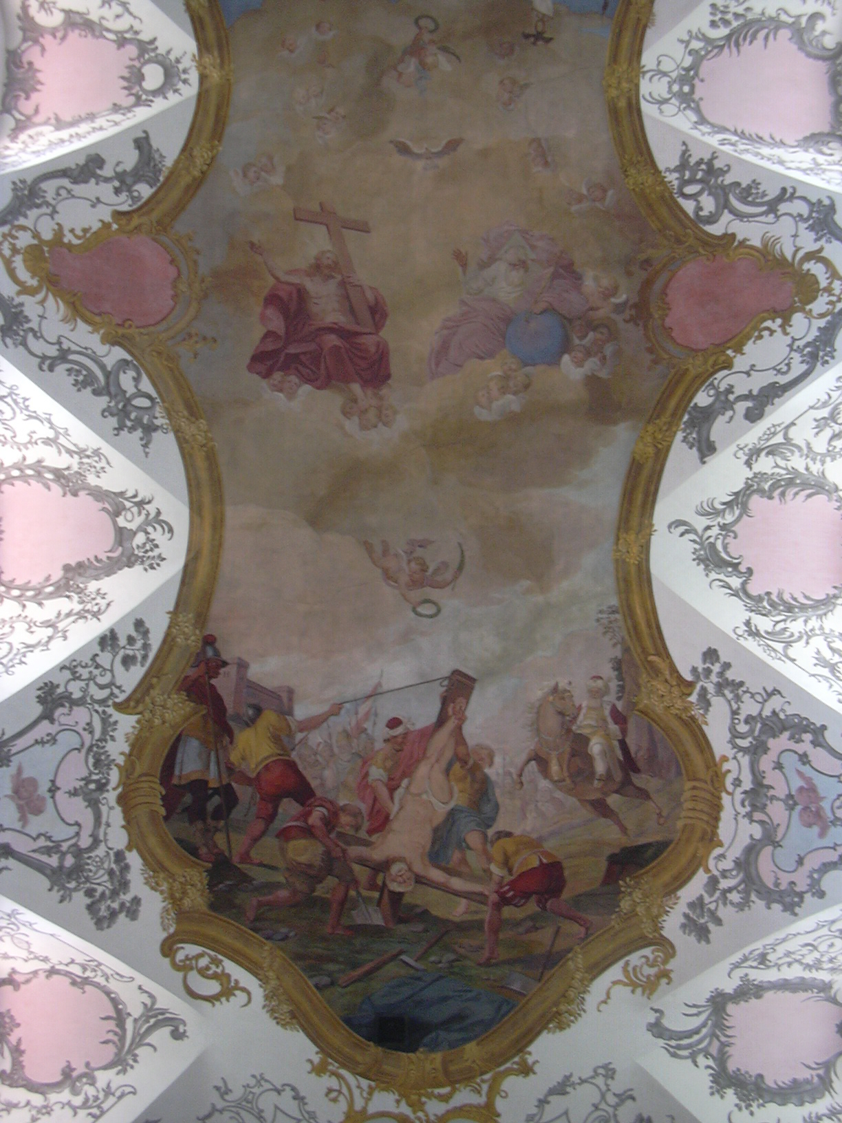 Church St. Peter + Paul, Torture of St. Peter, ceiling's affresco, Großostheim, Bavaria/Germany